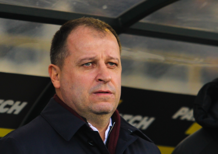 Yuriy Mykolayovych Vernydub is a Ukrainian professional football coach and a former player.